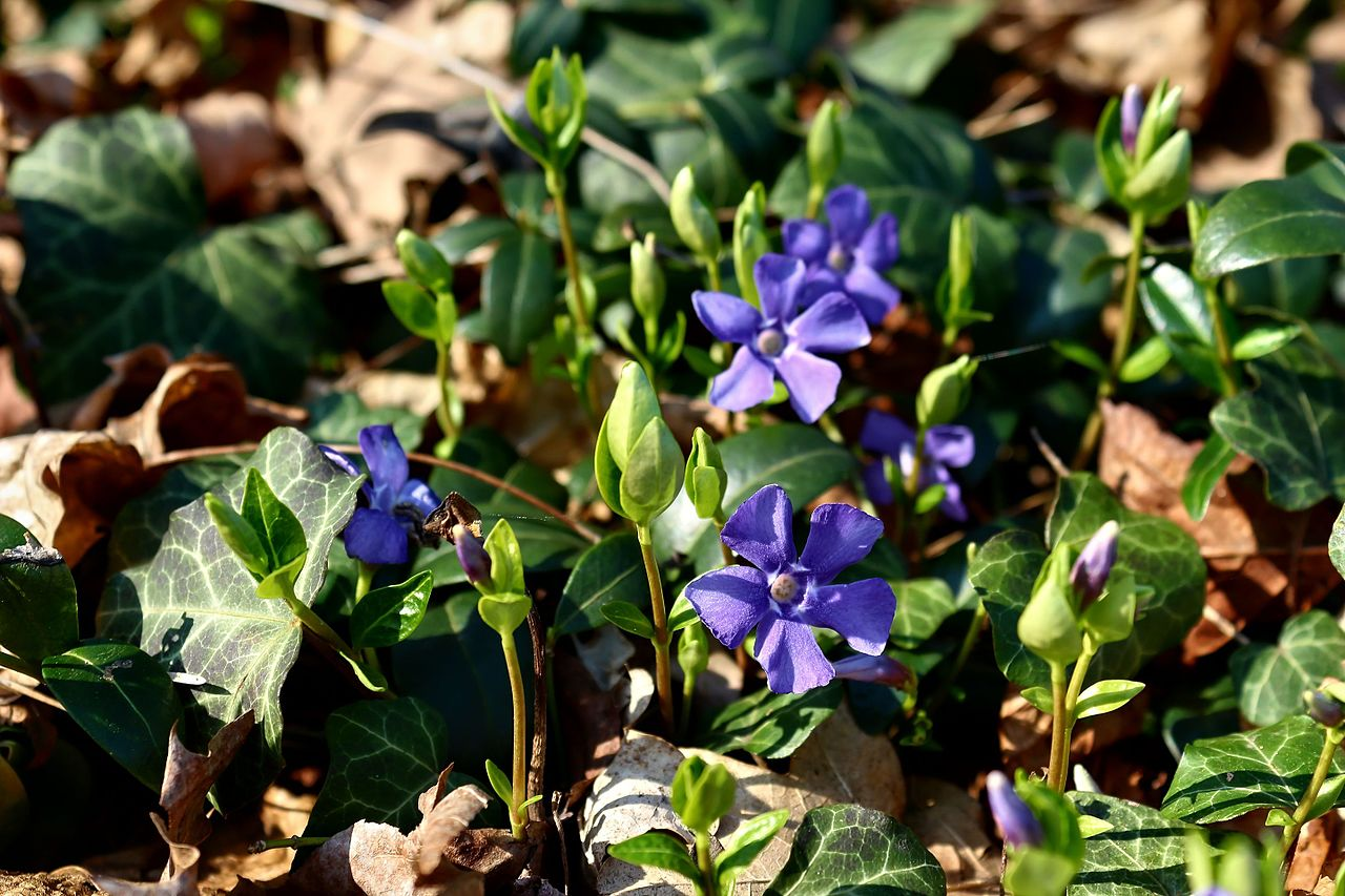 Vinca minor in a cemetary in Dębowa Łęka